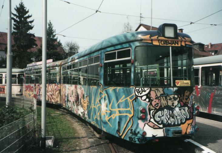 Old Duewag-tram in Mannheim-Käfertal, Germany.